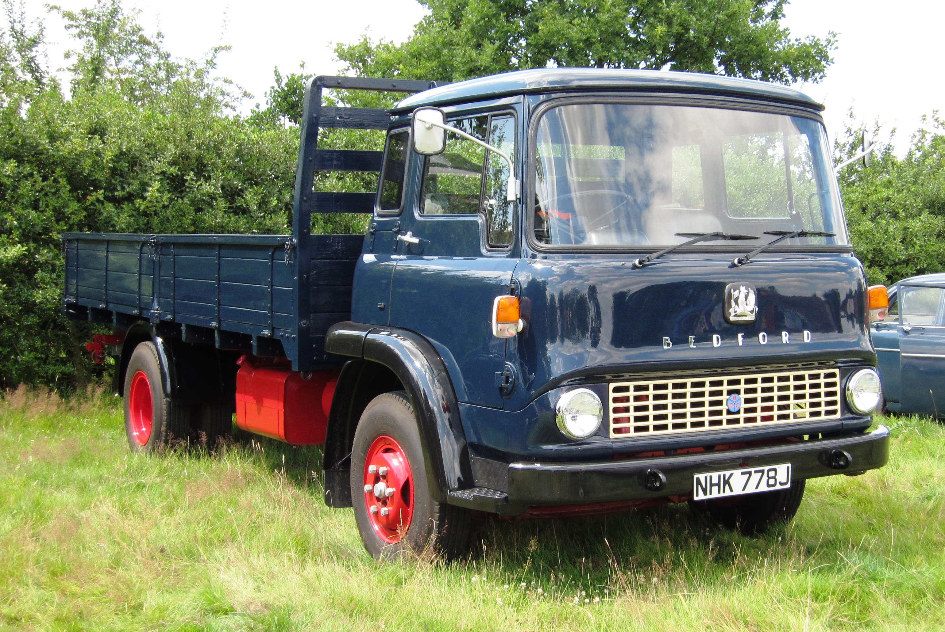 Bedford TK 1971 (so a late one) at a classic car show in Essex looking far cleaner, methinks. than they ever did in 1971.